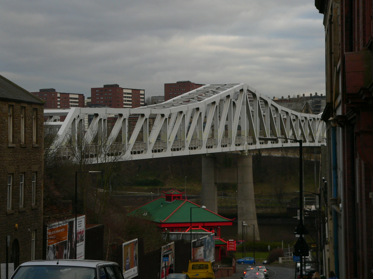 The Queen Elizabeth II Metro Bridge that carries the Tyne and Wear Metro over the river Tyne, viewed from Forth Banks in Newcastle.